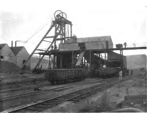 The Dundee (Natal Colony) coalmine c 1900